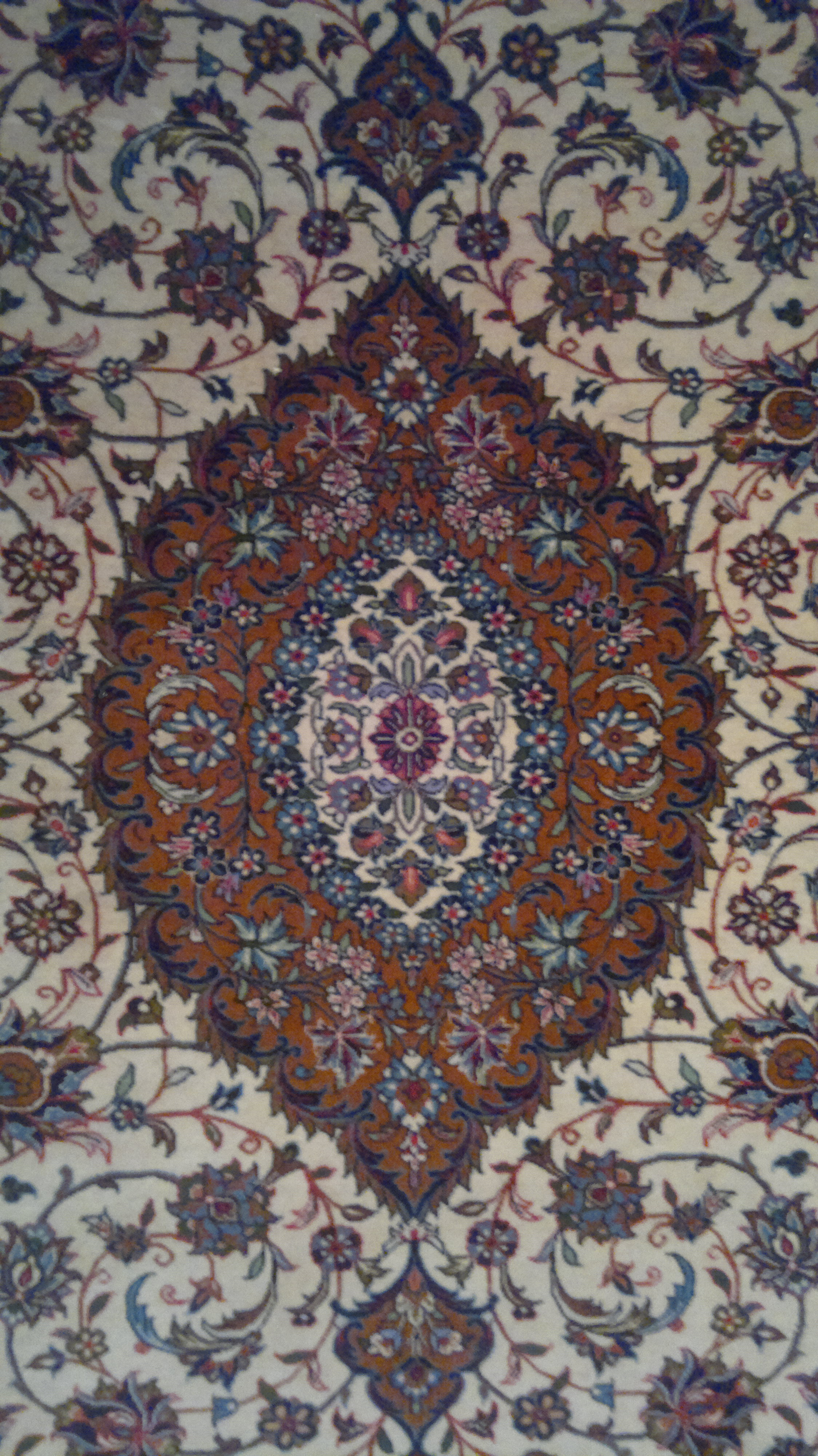 carpet from arak in iran